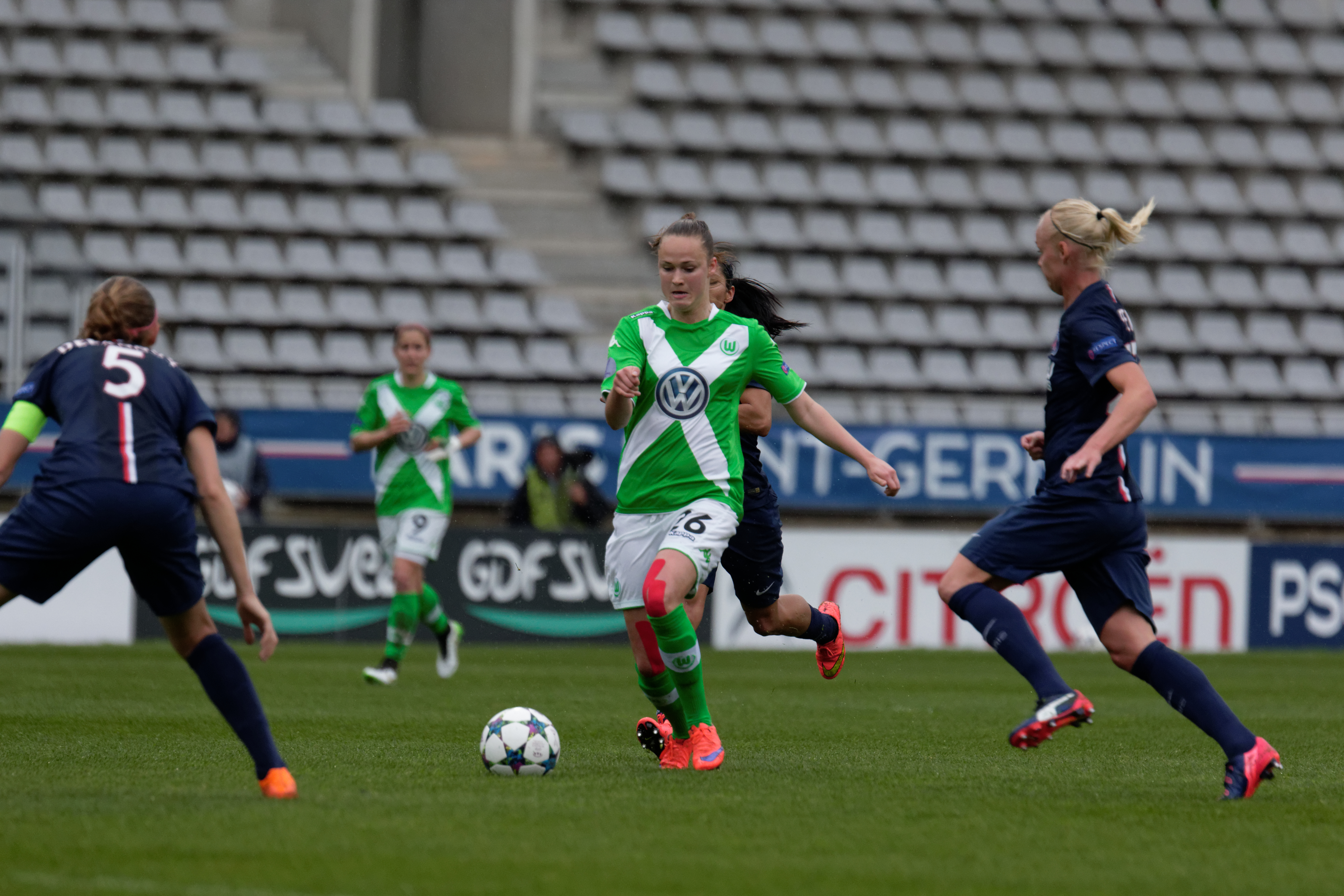 UEFA Women's Champions League, PSG - Wolfsburg, 26 April 2015.